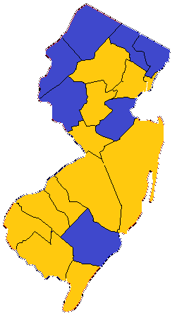 1847 New Jersey gubernatorial election Results